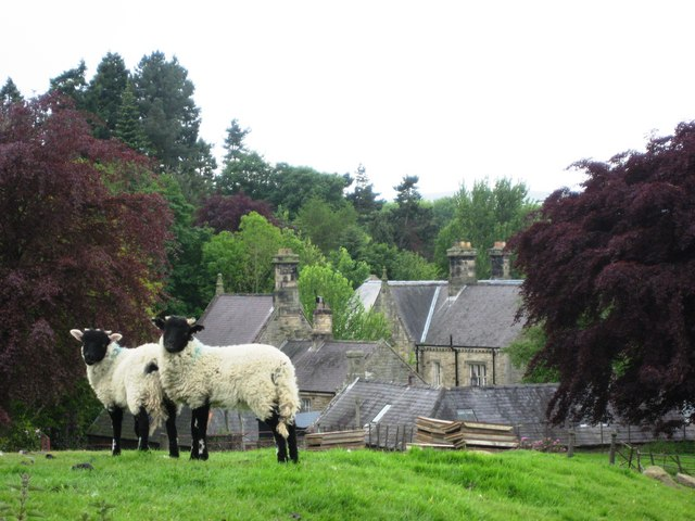 Unthank Hall The rear of the Hall, from the track up to Howden Rigg.